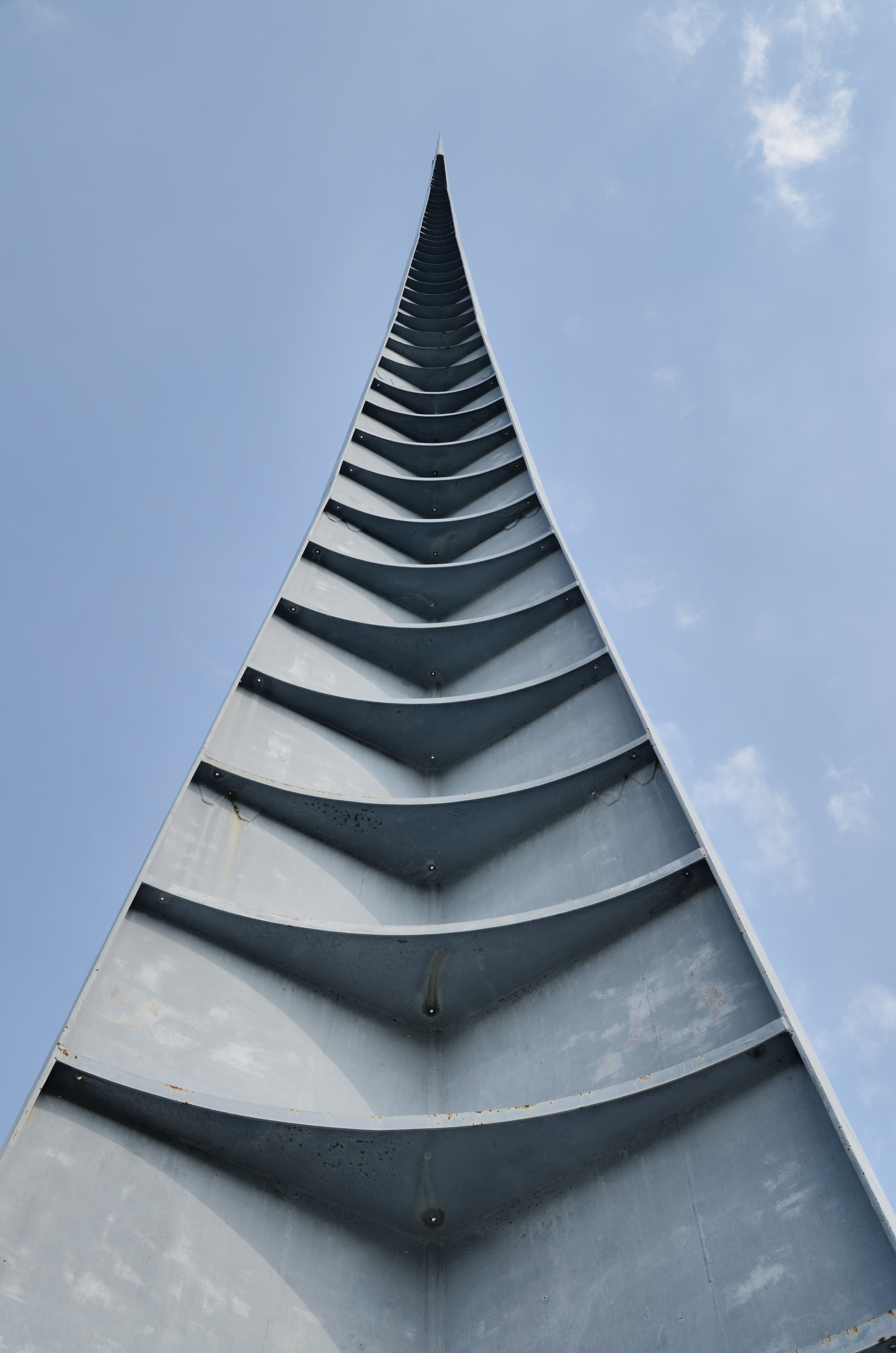 Iglica in Wrocław, Poland